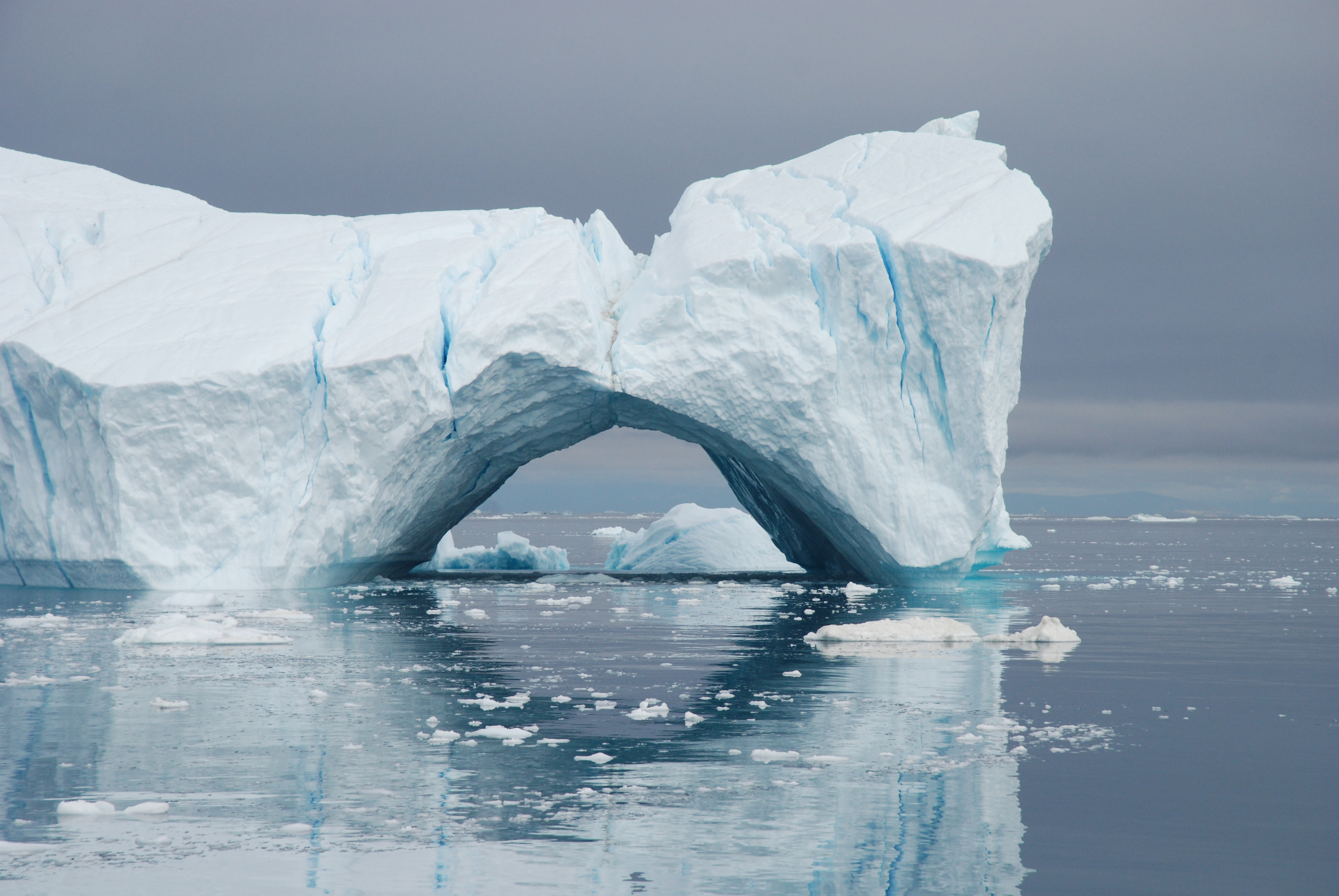 utenfor Ilulissat, Grønland Keywords: The Arctic, Sea and water, Ice and snow, Nature, Greenland